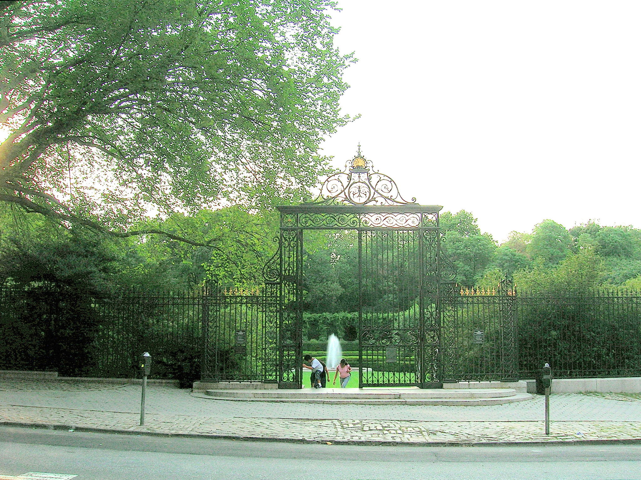 Central Park, NYC. Vandervilt Gate